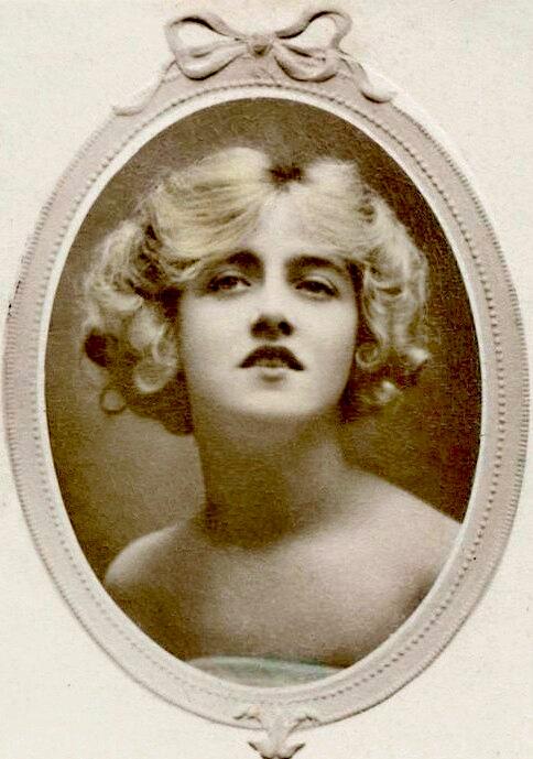 [Cigarette cards.] / British Beauties : a series of 76 hand coloured real photographs.